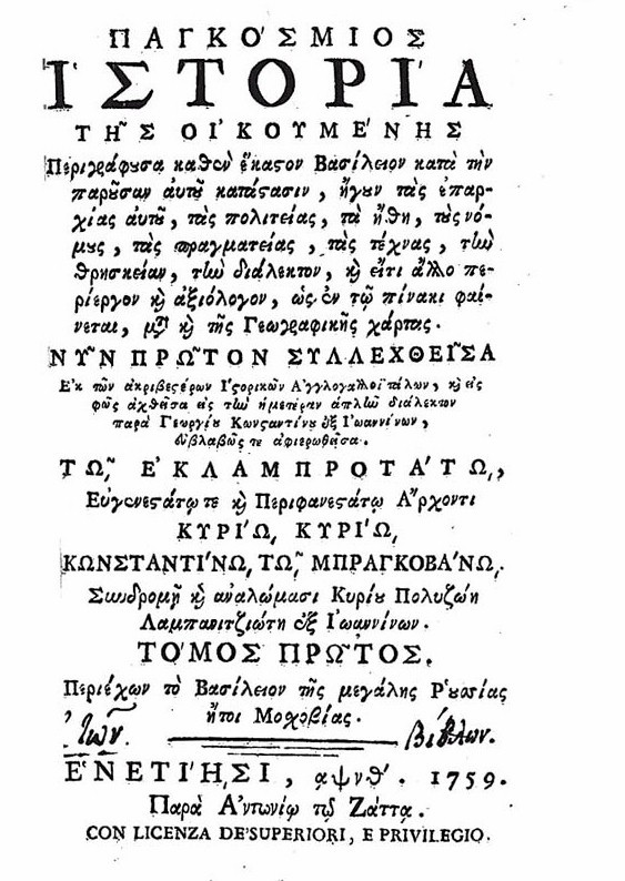 Title page of the History of the World by Georgios Konstantinou, 1759, Venice